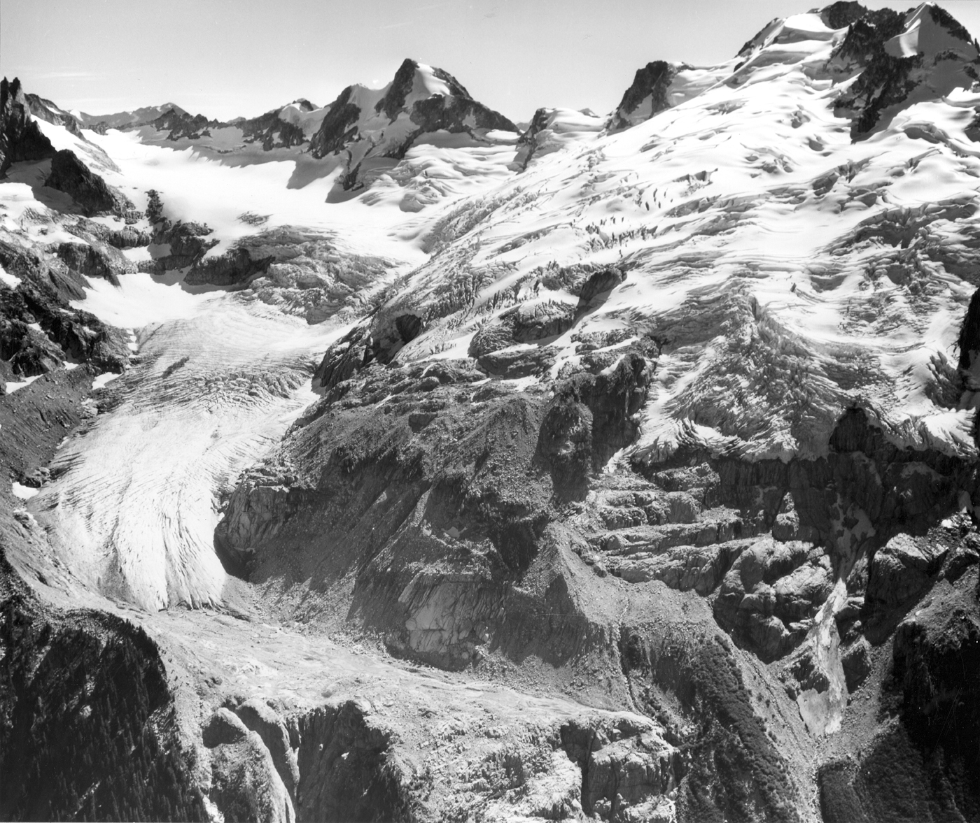 Chickamin Glacier, on the eastern slopes of Dome Peak (2,723 m). This composite valley glacier (left) and slope glacier (right) demonstrates the variations that can take place even in a single ice mass. The tongue at the left has retreated since observations began in 1955, but the terminus on steep cliffs on the right advanced rapidly in the early 1950's and has remained little changed since then. Glacier Peak Wilderness, Skagit County, Washington. September 23, 1965. Published as plate 3-F in U.S. Geological Survey. Professional paper 705-A. 1971. Image file